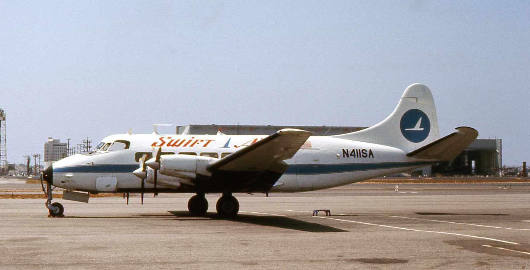 Swift Aire Lines Riley Turbo Skyliner N411SA taken at San Francisco in 1974.